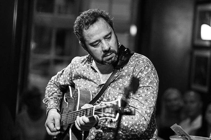 Larry Koonse at La Fountain, Copenhagen Jazz Festival 2018